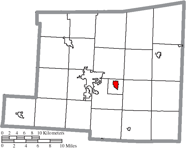 Map of the municipal and township boundaries of Knox County, Ohio, United States, as of the 2000 census, with the location of the village of Gambier highlighted. Township borders are shown only in unincorporated areas in order to differentiate incorporated and unincorporated areas more clearly.